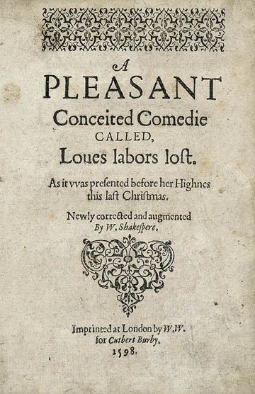 Title page of the first quarto of Love's Labours Lost